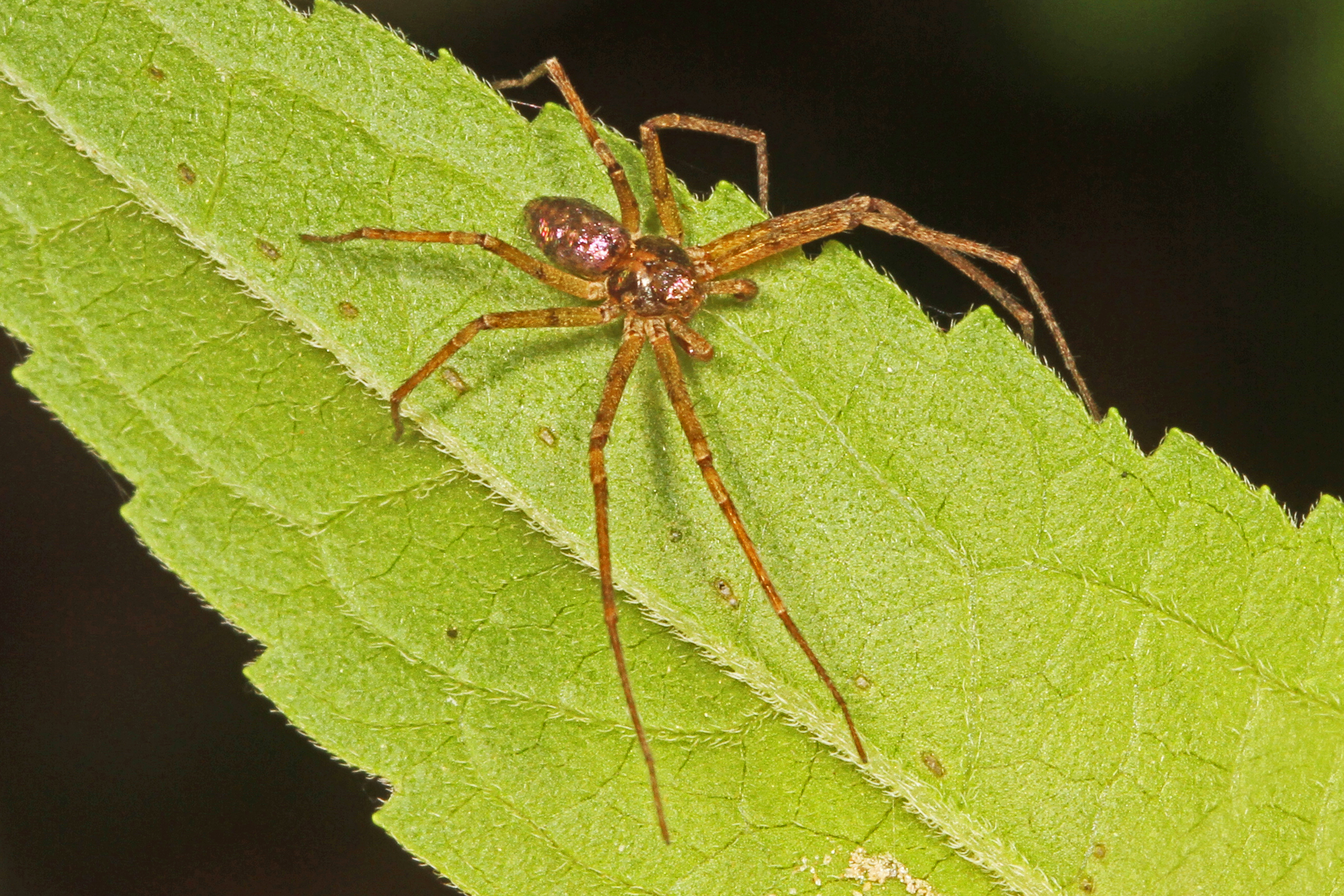 Metallic Crab Spider - Philodromus marxi, Leesylvania State Park, Woodbridge, Virginia